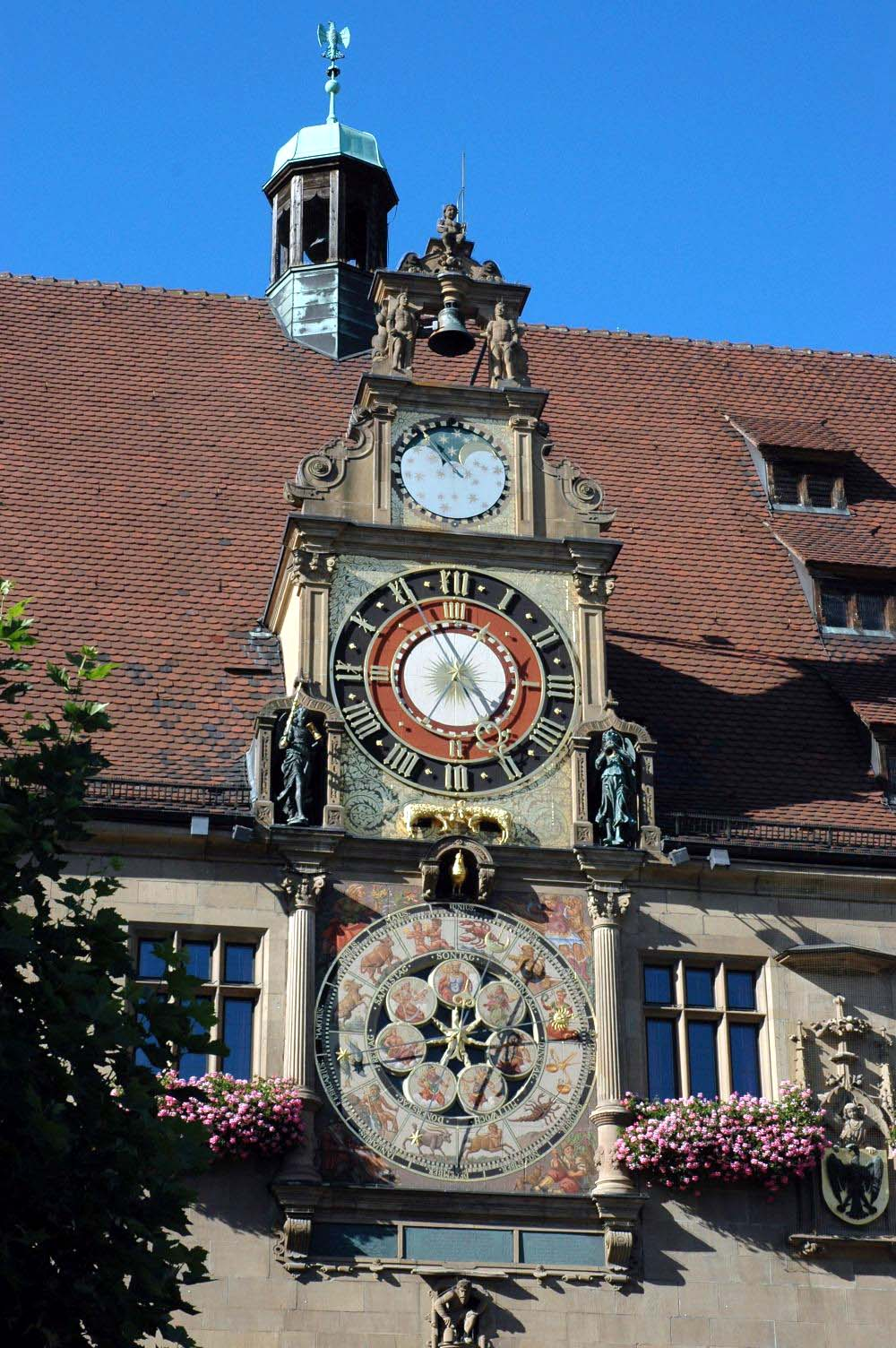 astronomical clock at the town hall of Heilbronn (Germany)